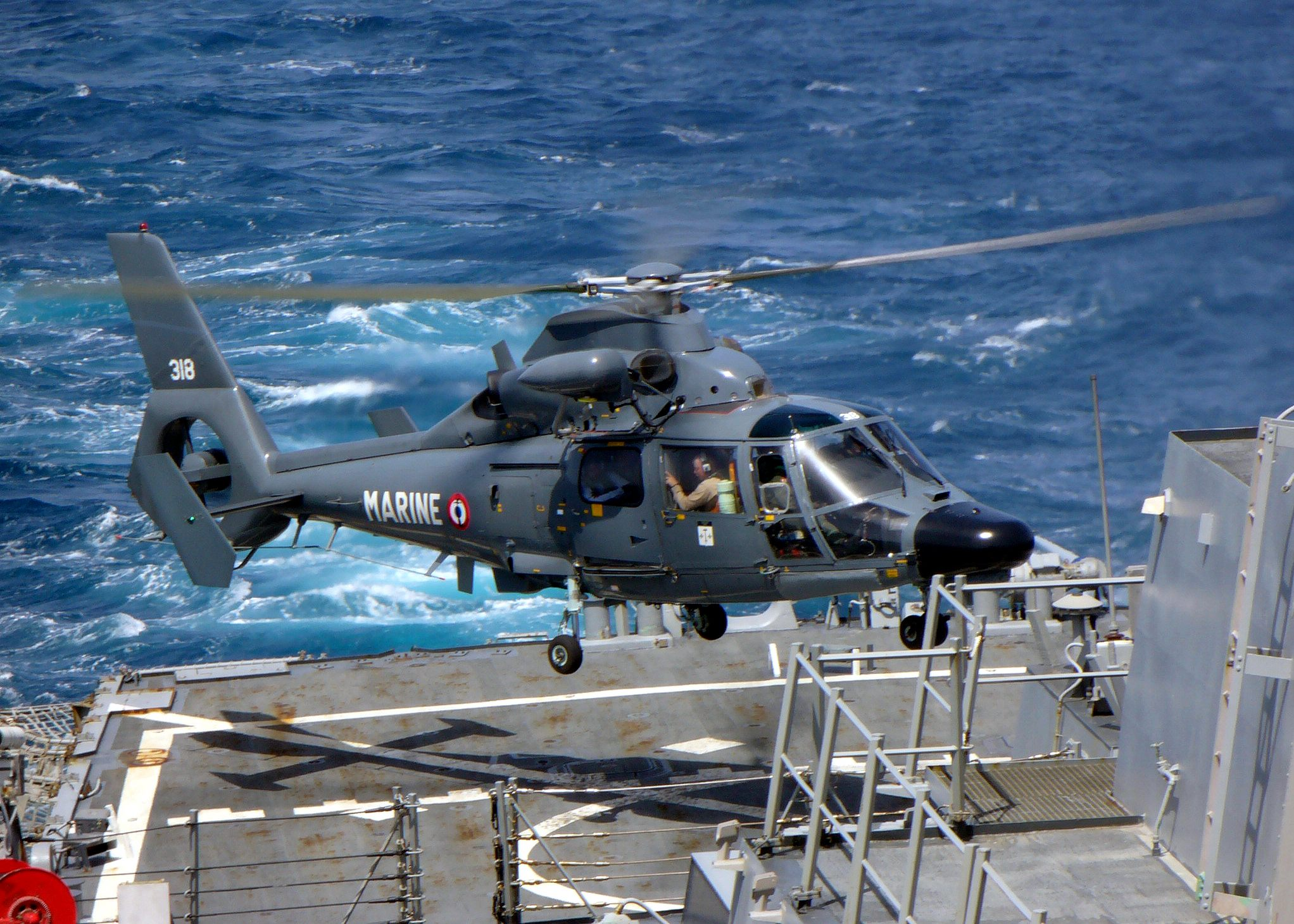 A French Navy Panther helicopter lands on USS Decatur 's (DDG 73) flight deck while underway in the North Arabian Sea. On the 5 May, the Decatur joined a coalition task force led by French nuclear-powered surface vessel Charles de Gaulle (R 91), which is currently providing air support to U.S. and coalition forces in Afghanistan. Decatur is deployed to the region in support of Maritime Security Operations. MSO help set the conditions for security and stability in the maritime environment, as well as complement the counter-terrorism and security efforts of regional nations.